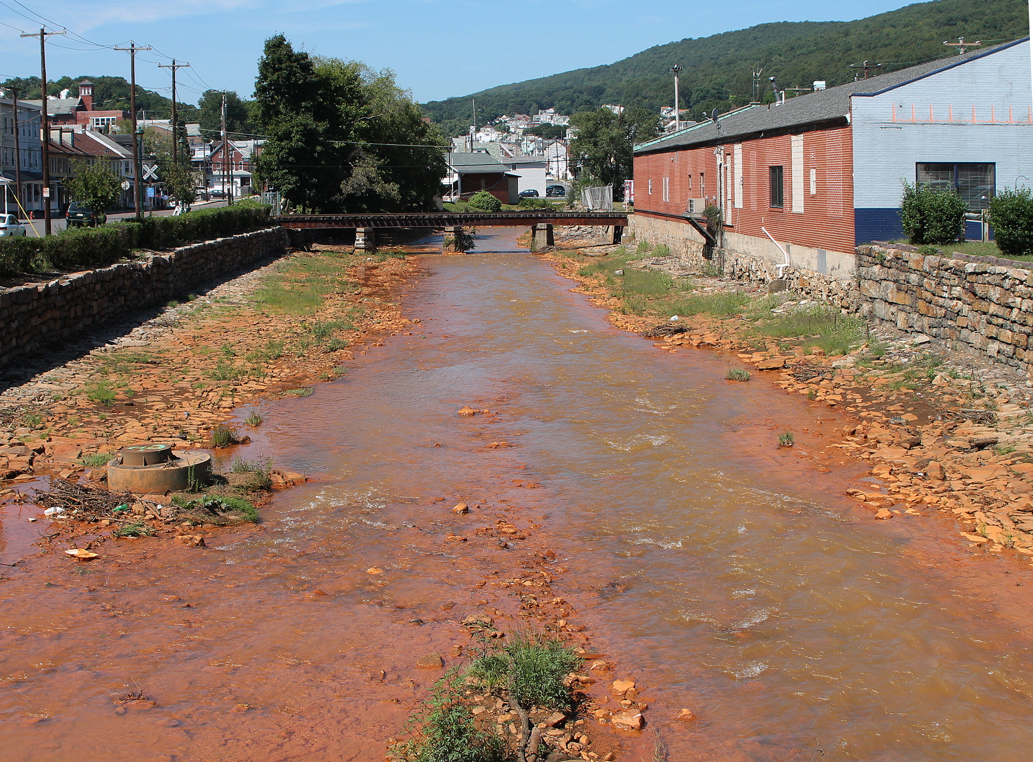 Shamokin Creek looking downstream in Shamokin, Pennsylvania